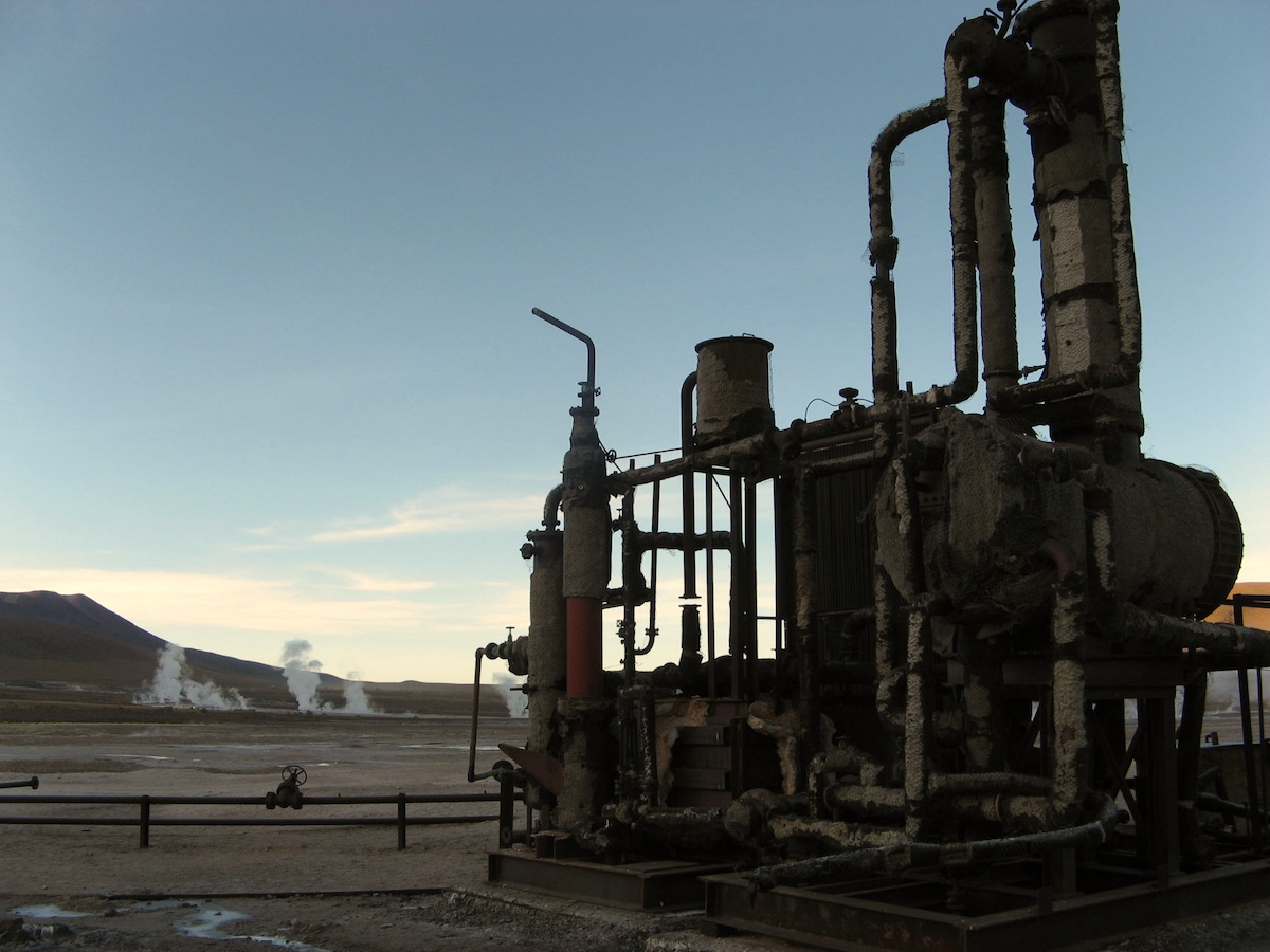 Geyser of El-Tatio, a former trial of the technical use of the hot water.